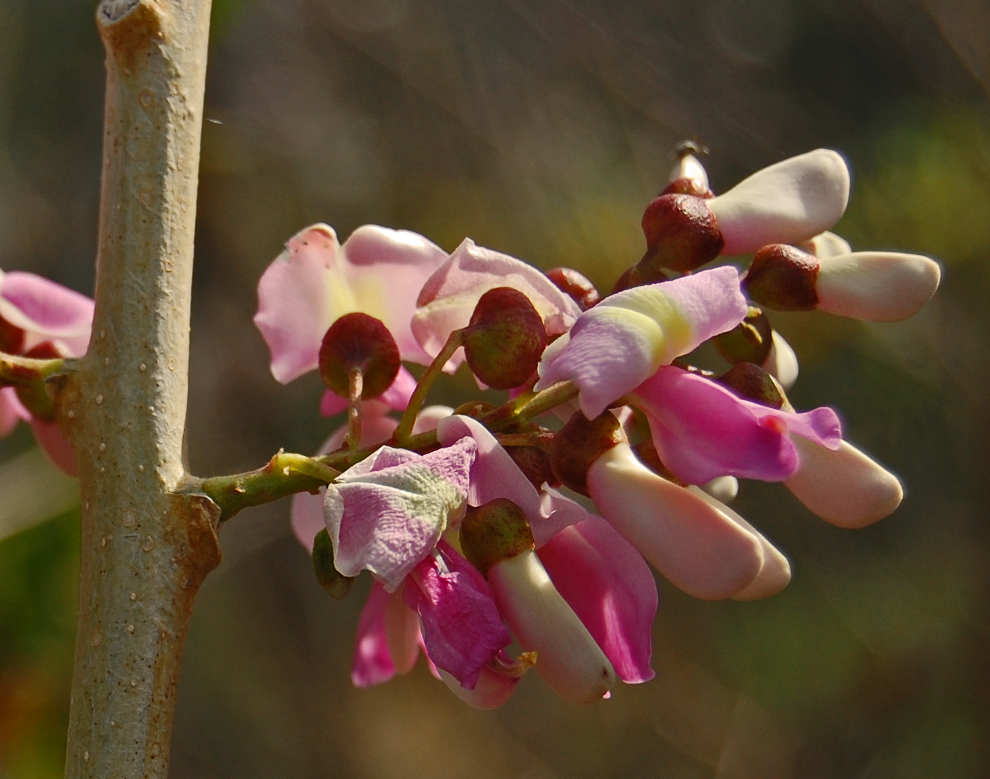 Gliricidia sepium, inflorescence. SoE, West Timor, Indonesia